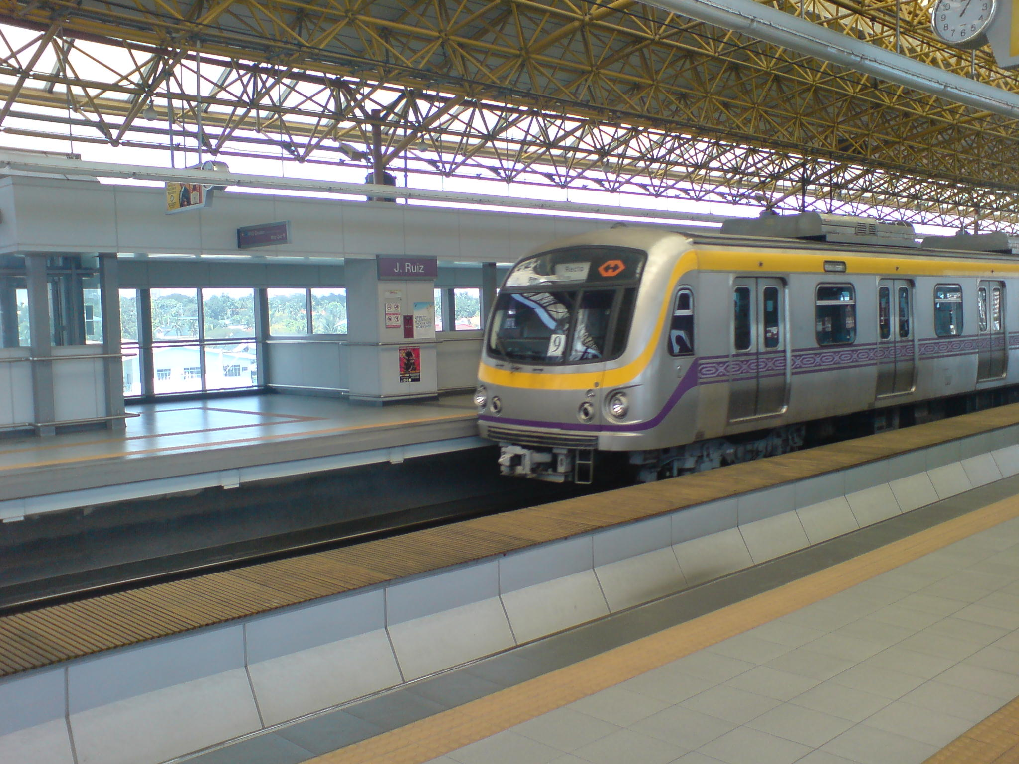 Platform area of J. Ruiz station of the Manila MRT Line 2 with an entering train.